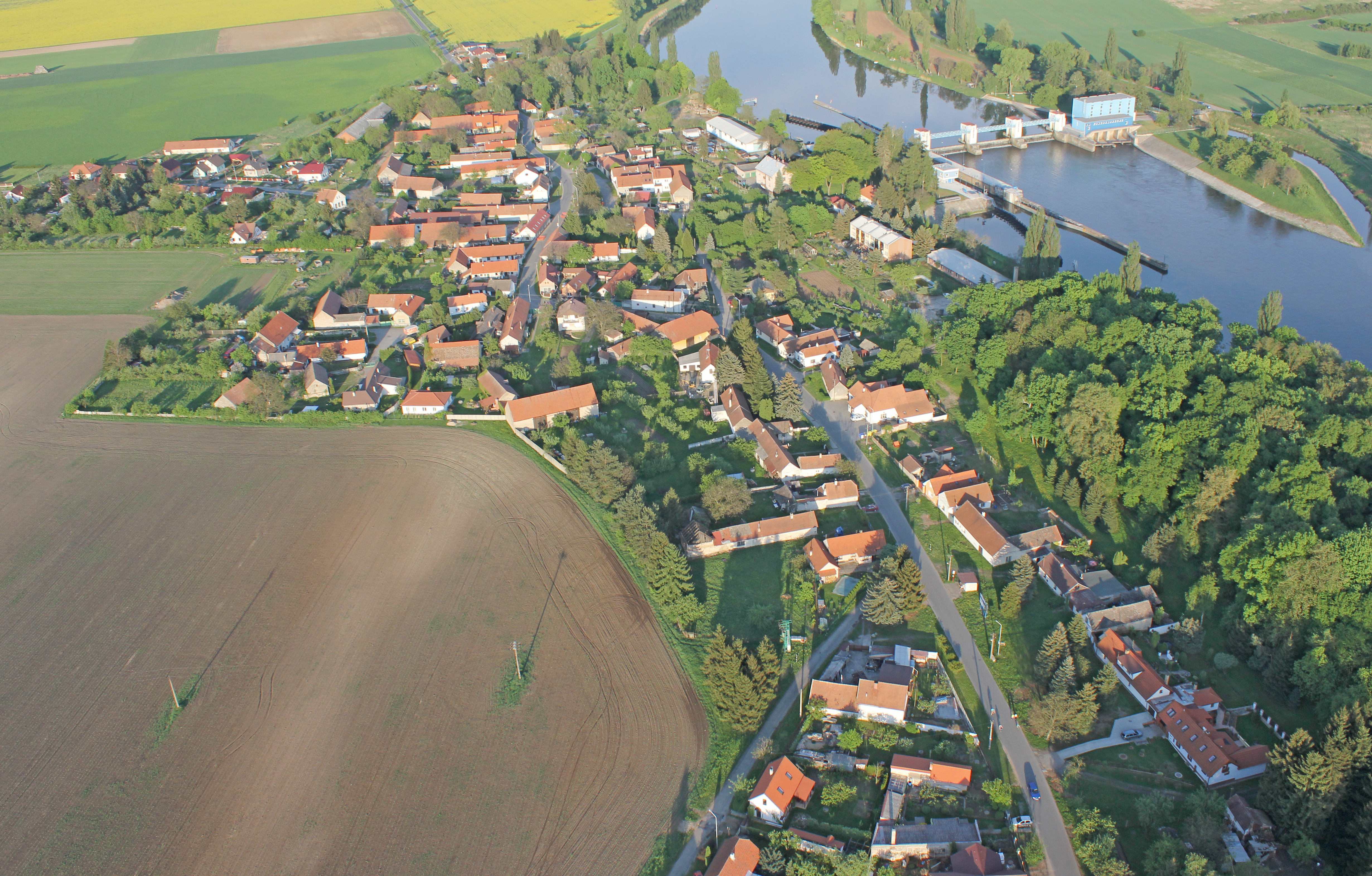 aerial photo